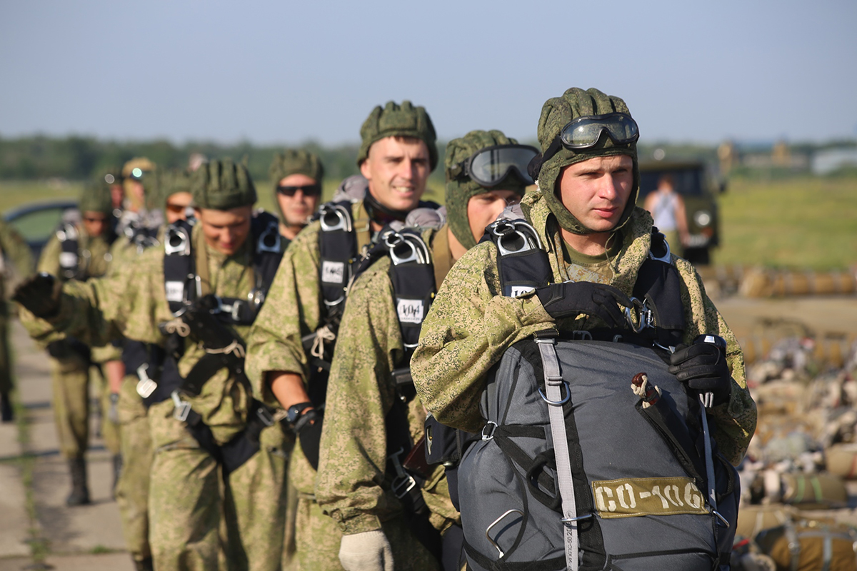 Jumping of the 22nd Separate Guards Special Purpose Brigade with "Arbalet-2".